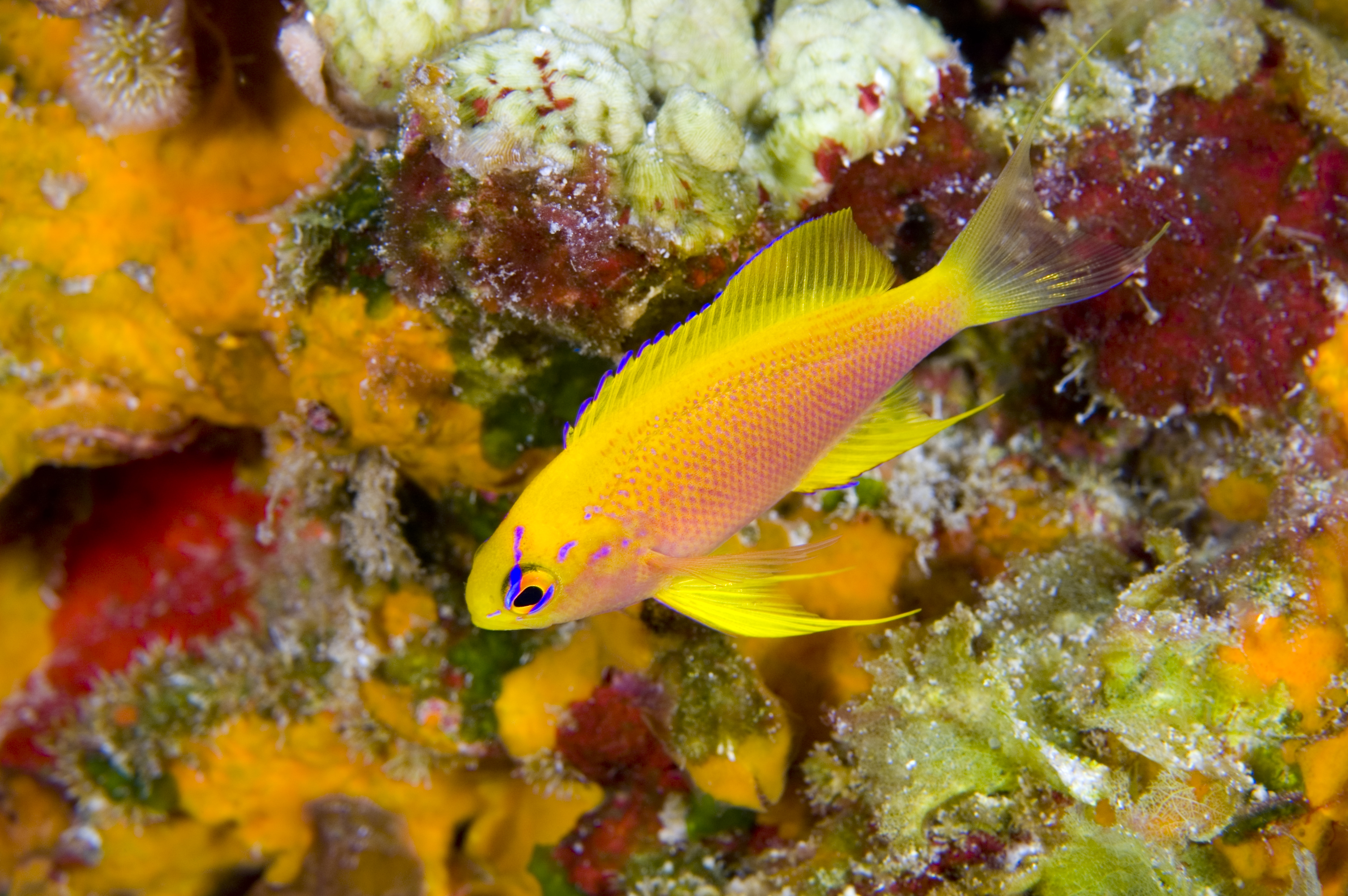 This Hawaiian longfin anthias (Pseudanthias hawaiiensis) was photographed at Pearl and Hermes Atoll in the Northwestern Hawaiian Islands. Protected by the 140,000-square-mile Papahānaumokuākea Marine National Monument, the vibrant coral reefs of this remote part of the Hawaiian Archipelago are home to more than 7,000 marine species, one-quarter of which are endemic — that is, found nowhere else on Earth. Photo Credit: Greg McFall/NOAA